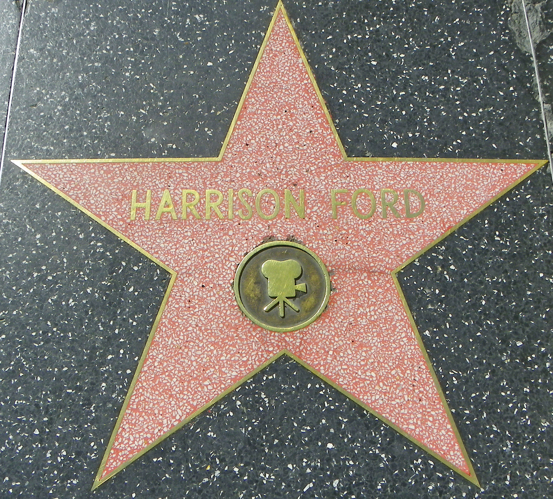 Harrison Ford's star on the Hollywood Walk of Fame in Hollywood, Los Angeles, California